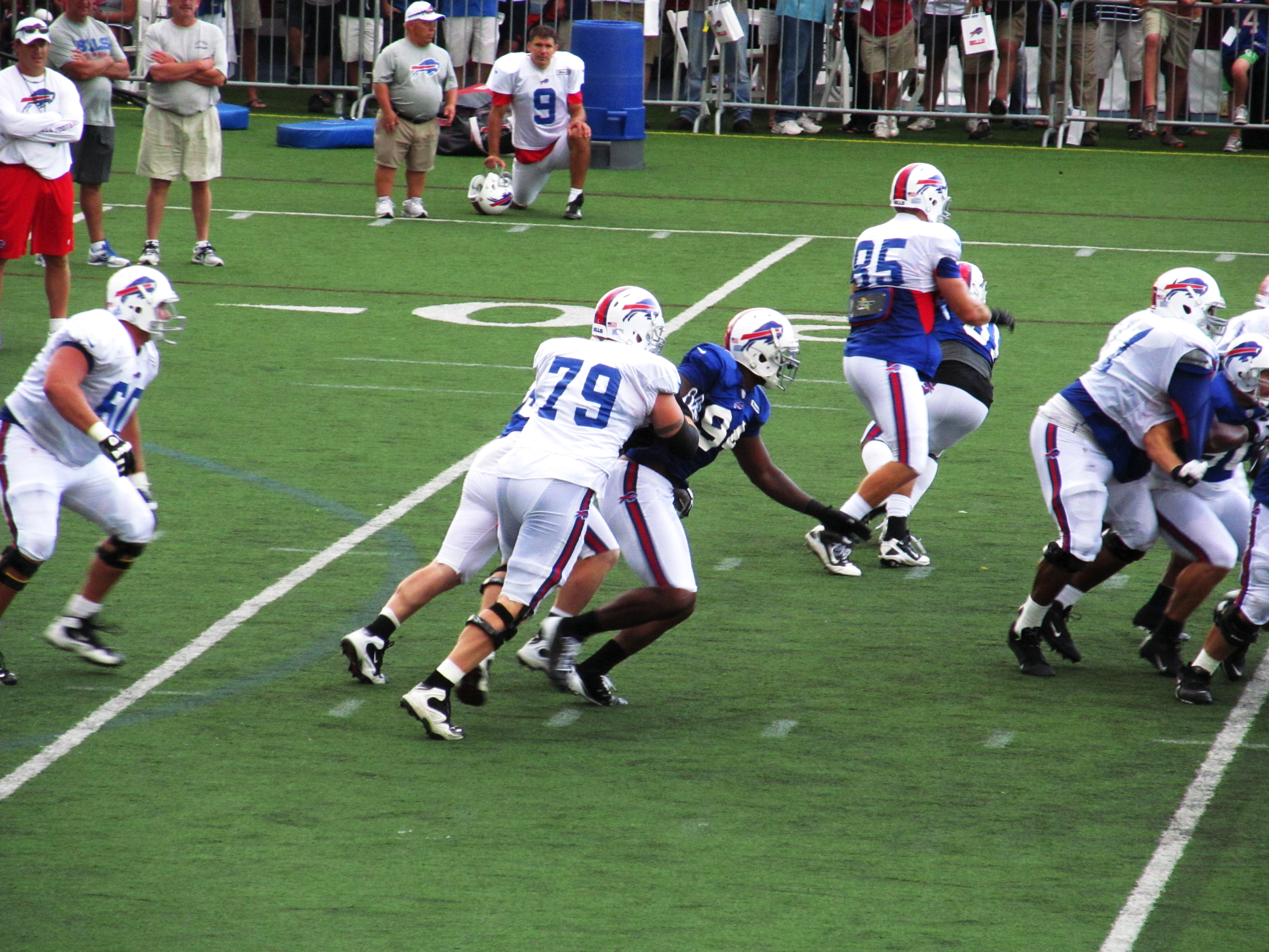 Buffalo Bills DE Mario Williams (94) during 2012 training camp.